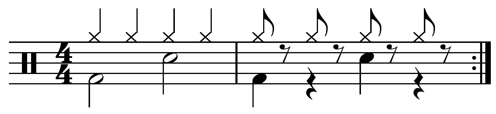 Simple quadruple drum pattern: divides four beats into two. Half time: notice the snare moves to beats 3 of measure one and two (beats 3 & 7) while the hi-hat plays only on the quarter notes. Note also, for example, that the quarter notes 'sound like' eighth notes in one giant measure. Created by Hyacinth (talk) 20:12, 1 March 2010 using Sibelius 5.